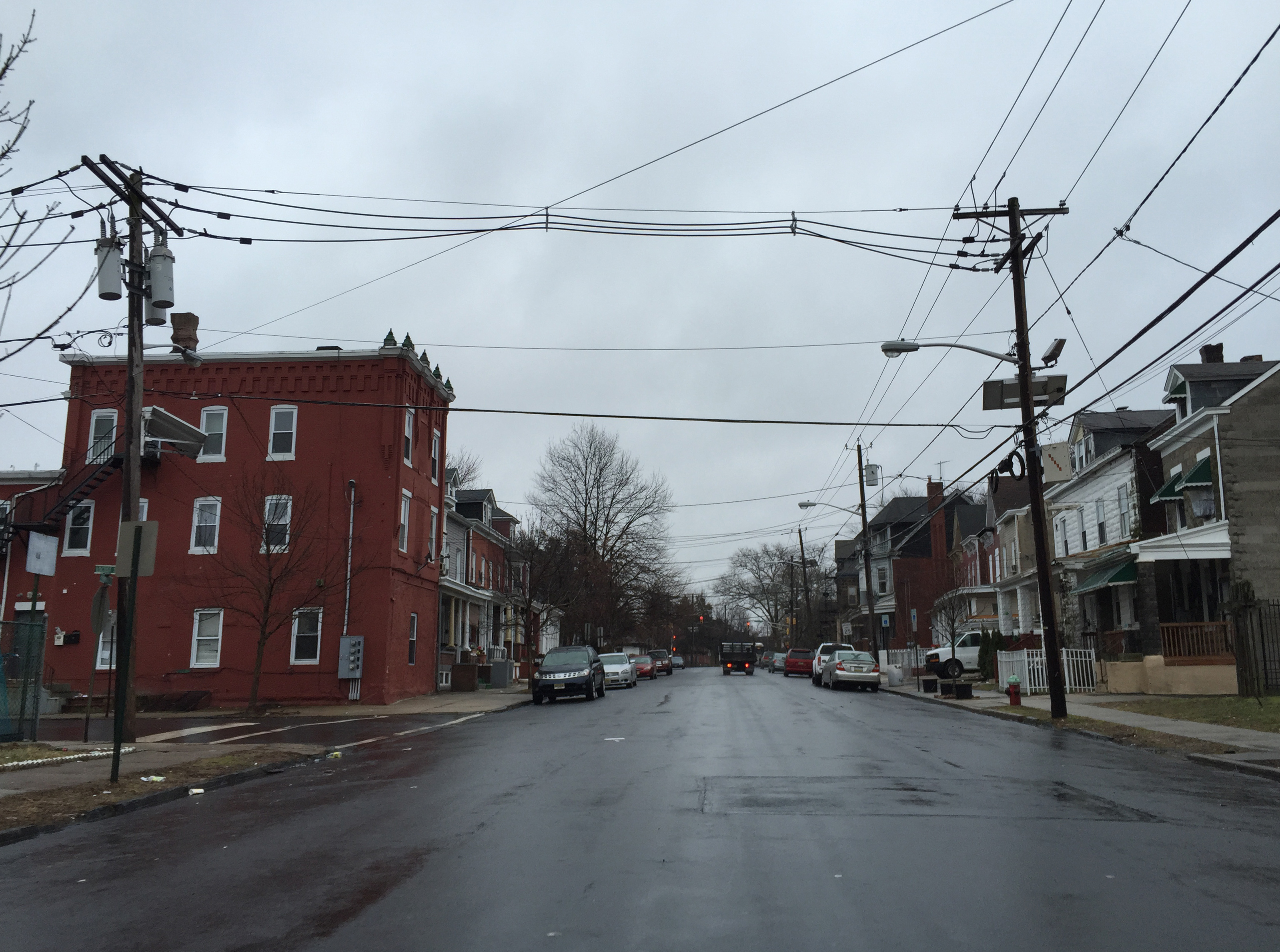 View southeast along Monmouth Street near Locust Street in the Greenwood/Hamilton section of Trenton, New Jersey